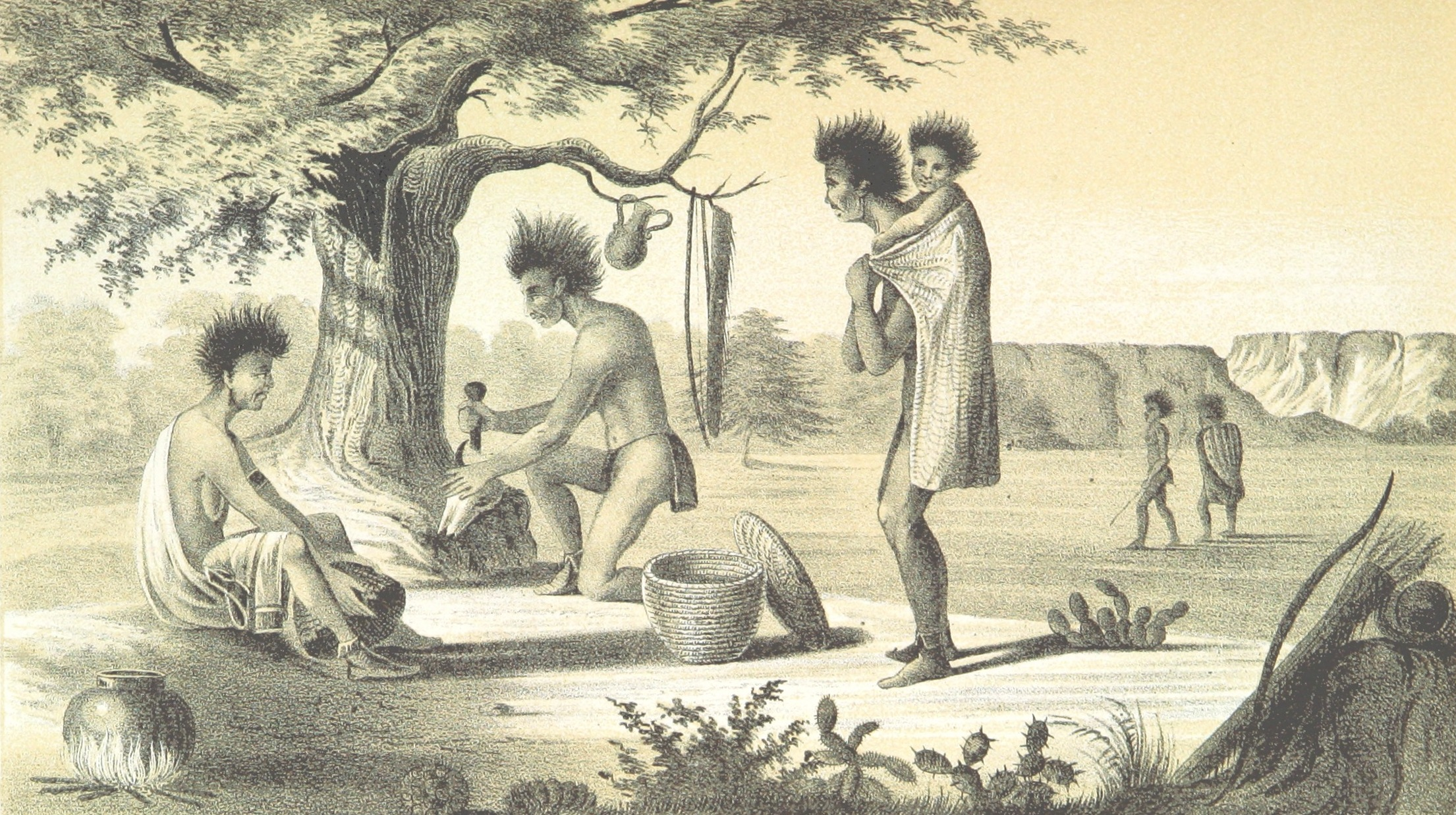 Image taken from: Title: "Report of an expedition down the Zuni and Colorado Rivers by Captain L. Sitgreaves ... Illustrations. (Report on ... Natural History ... by S. W. Woodhouse. Zoology: mammals and birds by S. W. Woodhouse; reptiles by E. Hallowell; fishes by S. F. Baird and C. Girard. Botany: by Professor J. Torrey. Medical report; by S. W. Woodhouse.)" Author: SITGREAVES, Lorenzo. Contributor: Baird, Spencer Fullerton Contributor: Girard, Charles Contributor: HALLOWELL, Edward. Contributor: Torrey, John Contributor: WOODHOUSE, S. W. Shelfmark: "British Library HMNTS 10408.d.14." Page: 51 Place of Publishing: Washington Date of Publishing: 1853 Issuance: monographic Identifier: 003399095 Explore: Find this item in the British Library catalogue, 'Explore'. Download the PDF for this book (volume: 0) Image found on book scan 51 (NB not necessarily a page number) Download the OCR-derived text for this volume: (plain text) or (json) Click here to see all the illustrations in this book and click here to browse other illustrations published in books in the same year. Order a higher quality version from here.